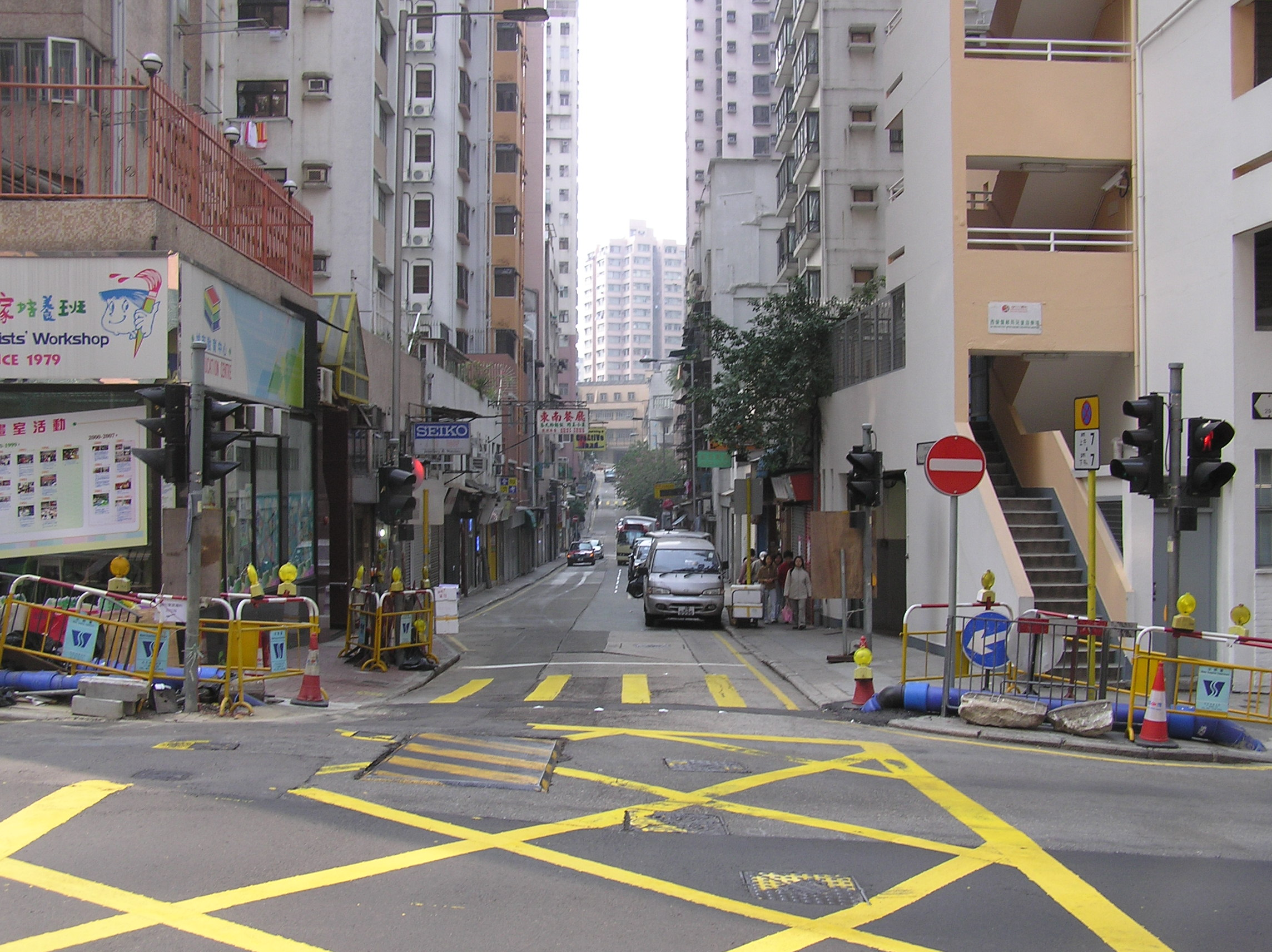 Third Street, Sai Ying Pun Hong Kong, looking west from Pok Fu Lam Rd near post office.